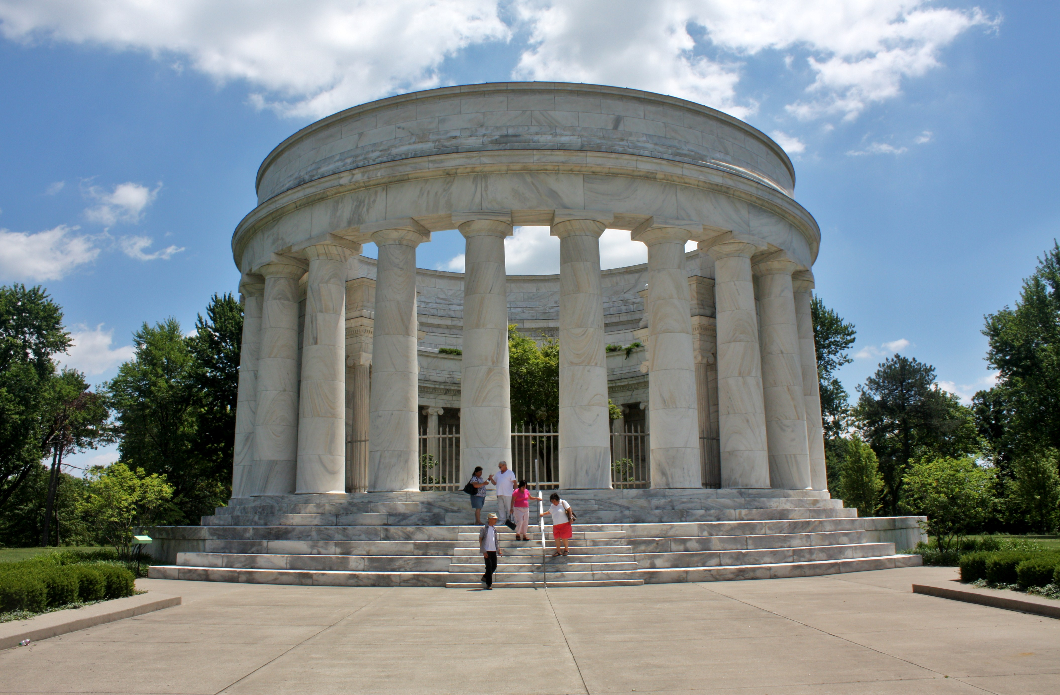 Harding Tomb, Marion, Ohio.